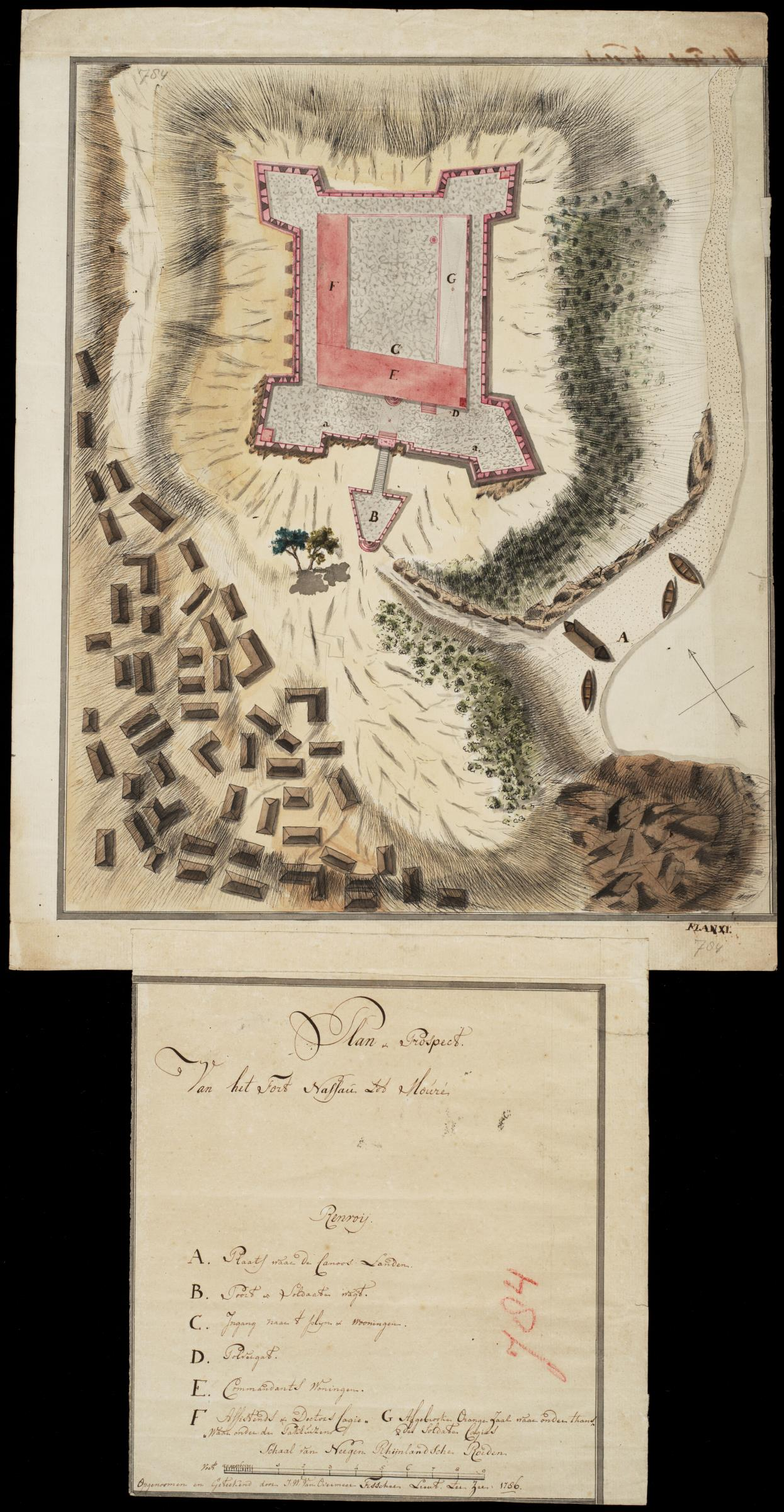 Floor plan of the Nassau fort at Mouri. Title in the Leupe catalogue (NA): Plan en Prospect van het fort Nassau tot Mour??. Plan-Prospect / Van het Fort nassau tot Mour??. The attached notes to the plan measure 28 x 25,5 cm. Notes on reverse: No. 28 Het Fort Nassau. Register 8, Deel 1, Folio 34, Portefeuille .. [inscribed on a blue label] / 478 [stamped in bold on a small label] / no. 1 M. Top left and bottom right on the chart, to the right on the notes: 784 [in pencil]. Bottom right: Plan XI:. Key: Renvoij / A. Plaats waar de Canoos Landen. / B. Poort & Soldaaten wagt. / C. Ingang naar 't plyn & wooningen / D. Polvergat. / E. Commandants Woningen. / F. Assistends of Doctors Logie,, ,,Waar onder den pakhuizen / G Afgebrooken Orange Zaal waar onder thans des Soldaten Logies.